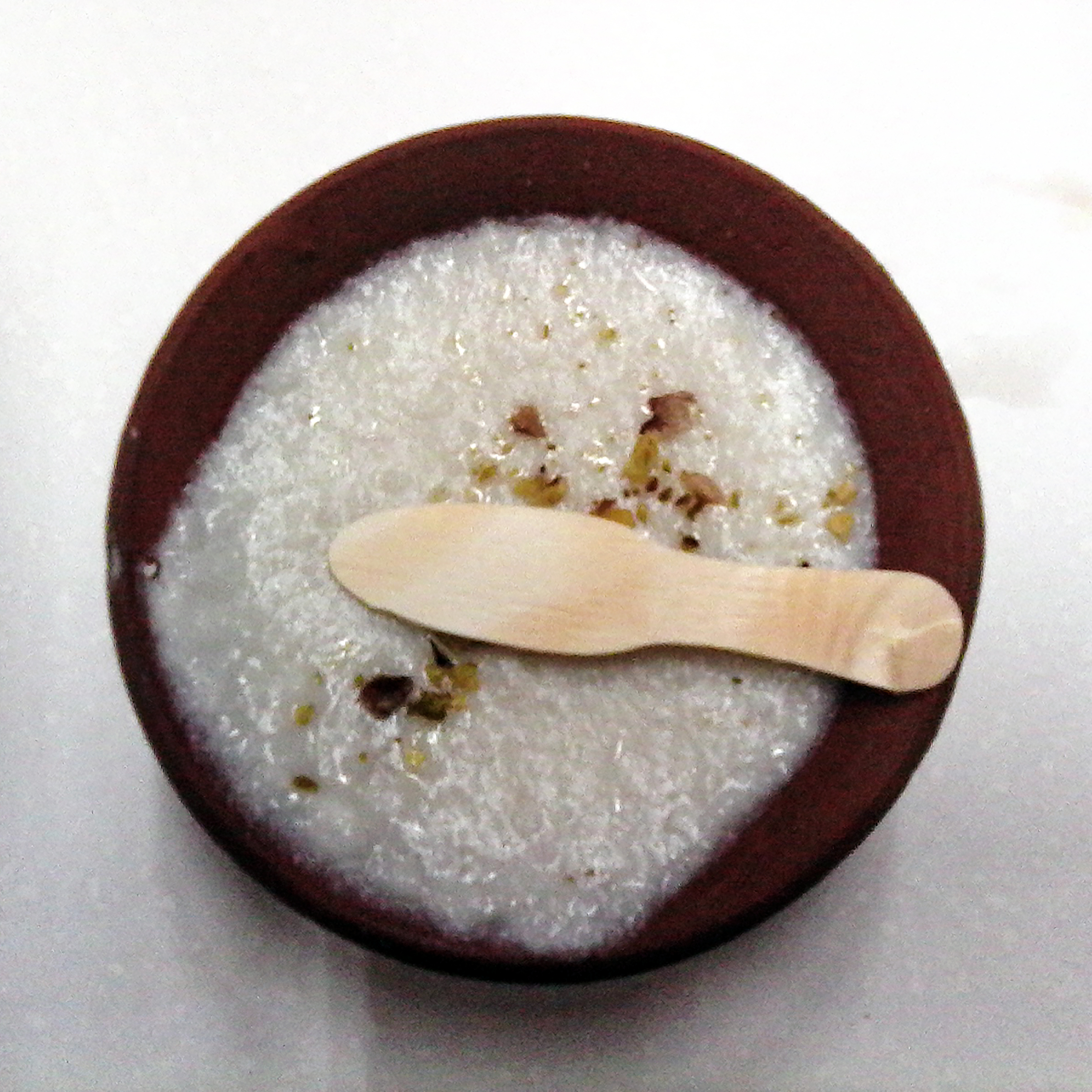 Kheer Benazir, rice pudding, Karim's, Gali Kababian, Old Delhi, Delhi.